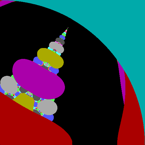 Complex recursive fractal, power 2, enlarged 1st quadrant